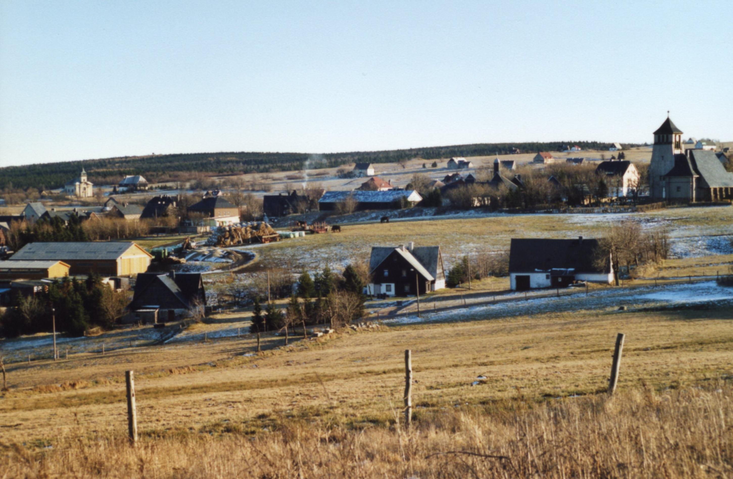 This image shows the village of Zinnwald-Georgenfeld near Altenberg in Saxony, Germany. The church on the right side belongs to the evangelic (german) and the church on the left side to the catholic (czech) part of Zinnwald.